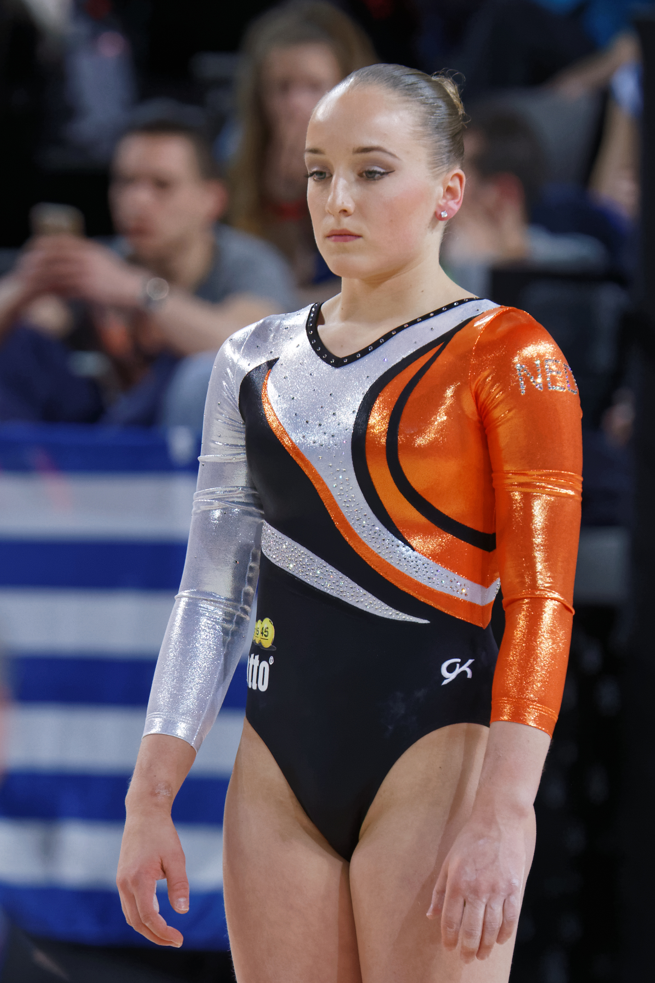 2015 European Artistic Gymnastics Championships. Bamance beam.